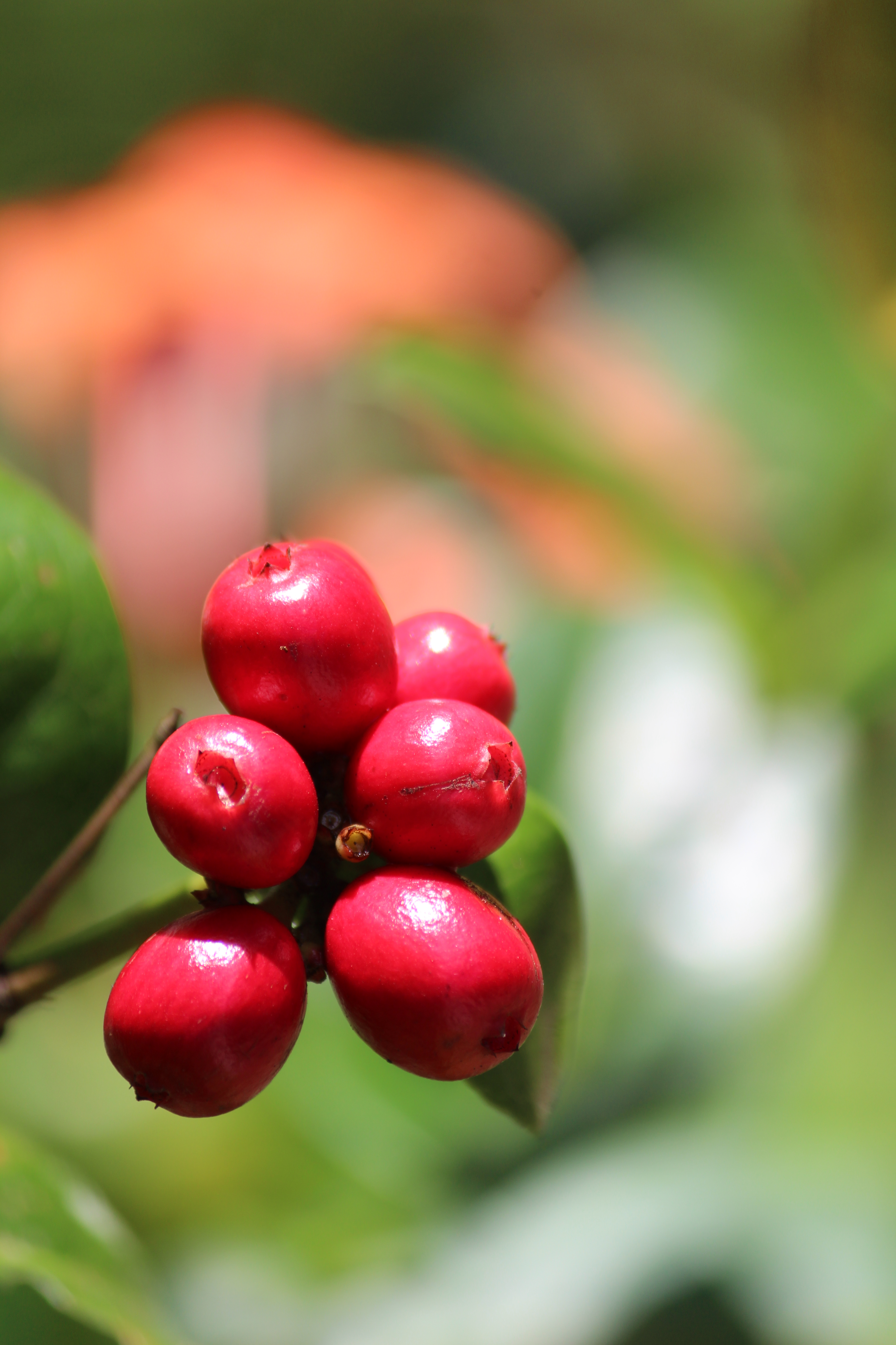 Jungle geranium (Ixora coccinea) seeds. Photographed from, Kanjirappally, Kerala.